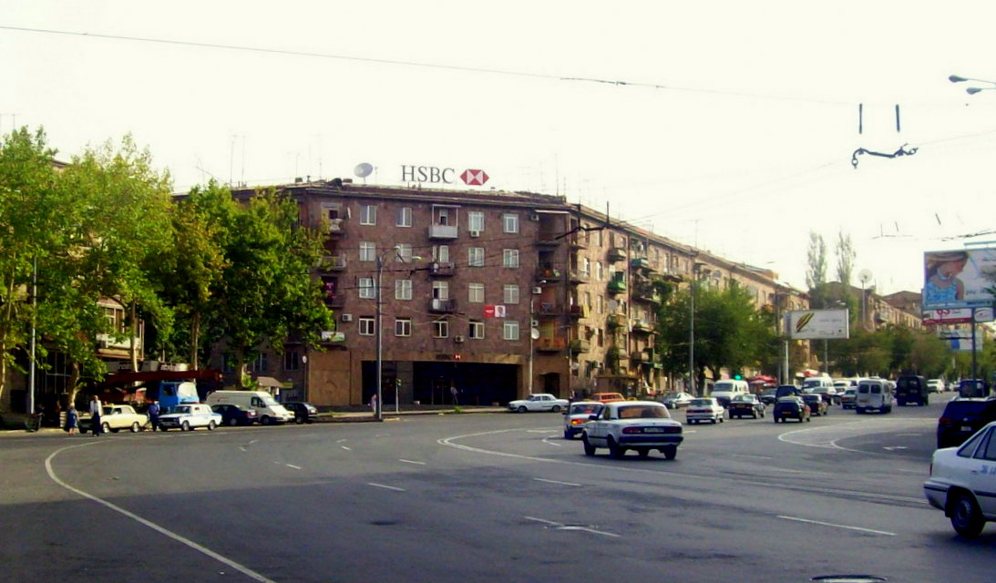 Mher Mkrtchyan Square, Arabkir district, Yerevan, Armenia.